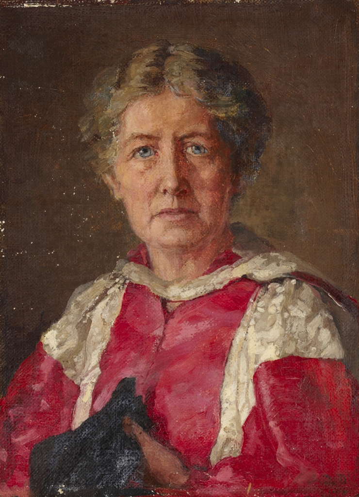 Painting by Dorothy Darnell, before 1949